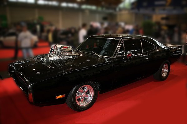 Dodge Charger 1970 from the Movie The Fast and the Furious